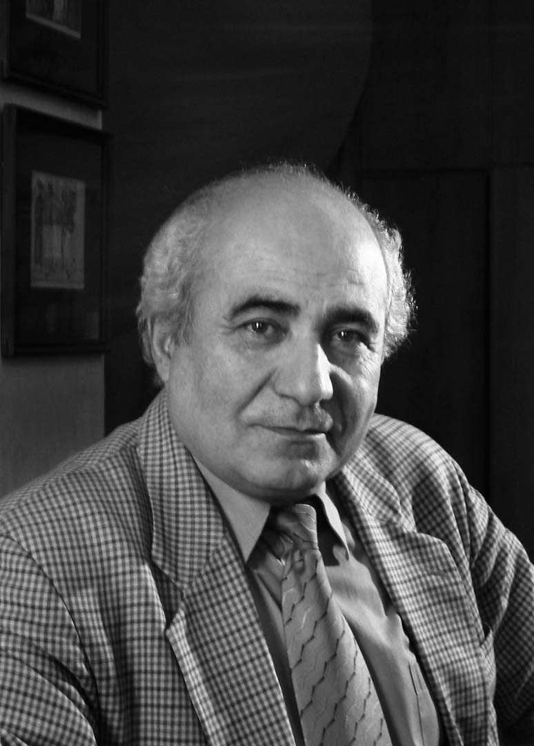 Armenian photographer image from Vahan Kochar's collection. Author:Vahan Kochar